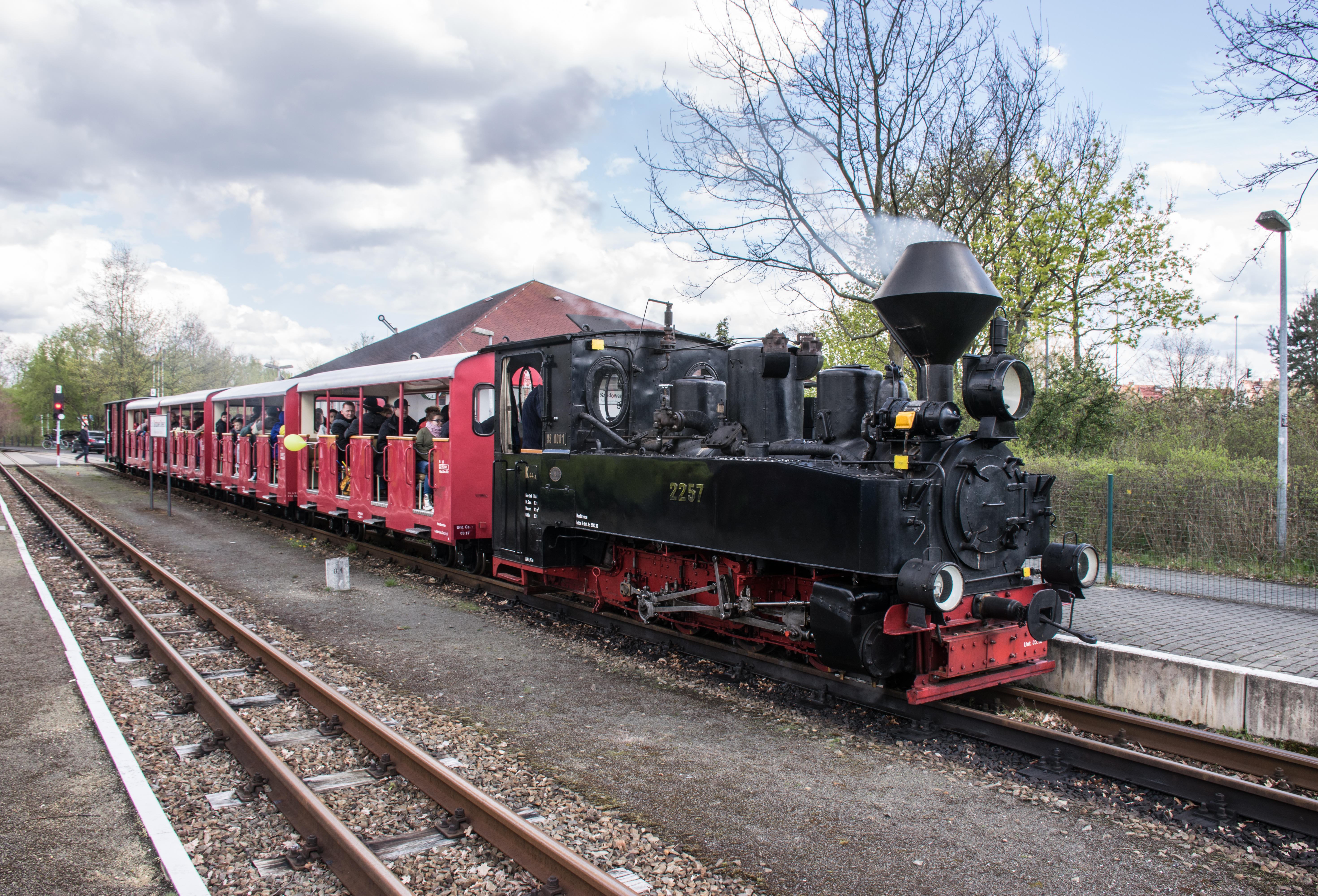 Brigadelok 99 0001 Linke-Hoffman 1739/18 formerly at coal mine. (Braunkohlenwerk 'Frieden' in Halbendorf between Weisswasser and Forst connecting to DR standard and narrow gauge). It is believed to have been in industrial service in Poland between the wars but, by 1946 was at Halbendorf. She was overhaled at RAW Cottbus in 1954 for the Park.